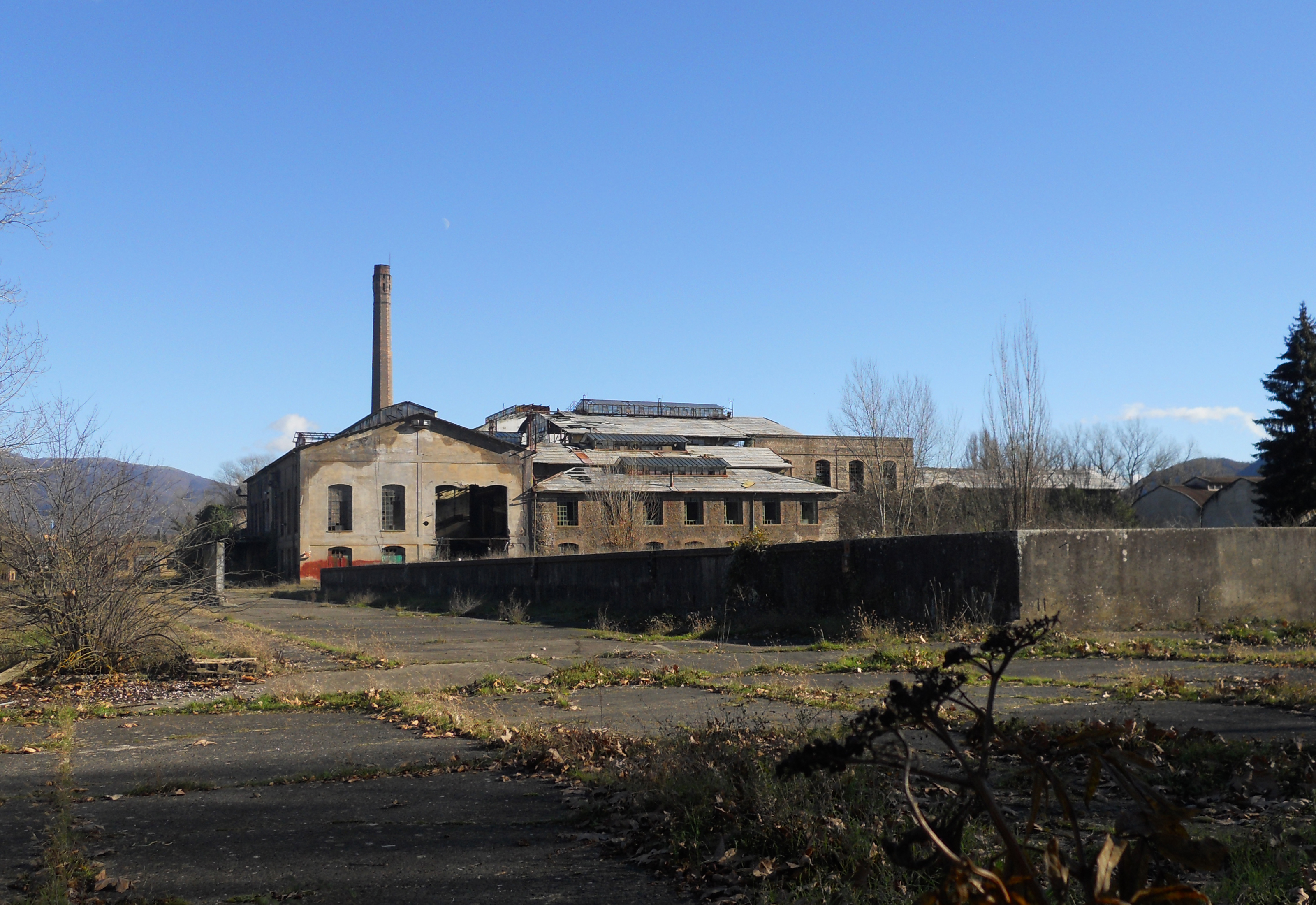 The former sugar refinery of Rieti (Italy), built in 1873 and closed in 1973, as seen from Maraini street